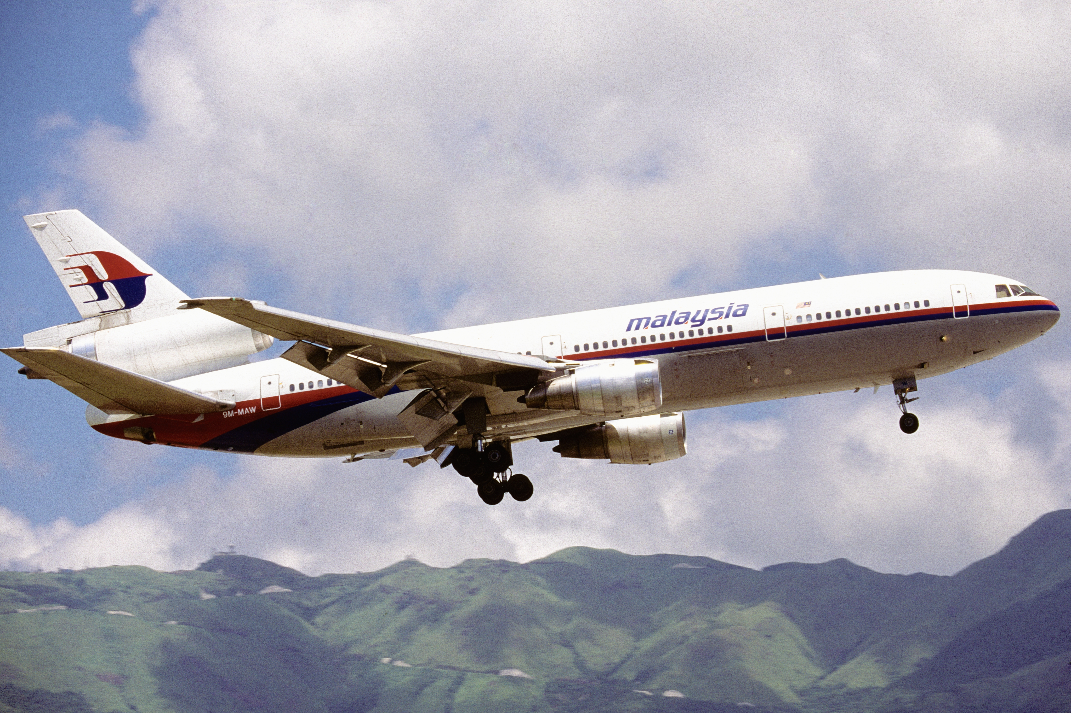 Old Pictures